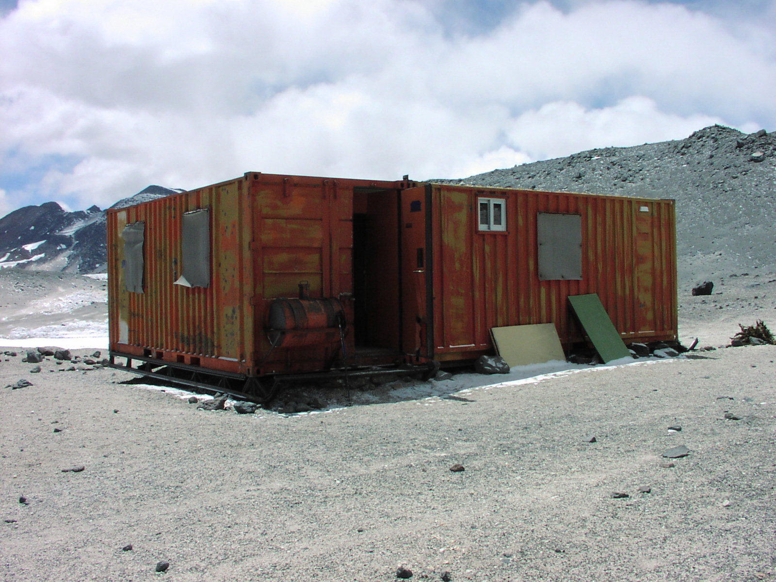 High camp Refugio Tejos at the Ojos del Salado, Chile, February 2004.